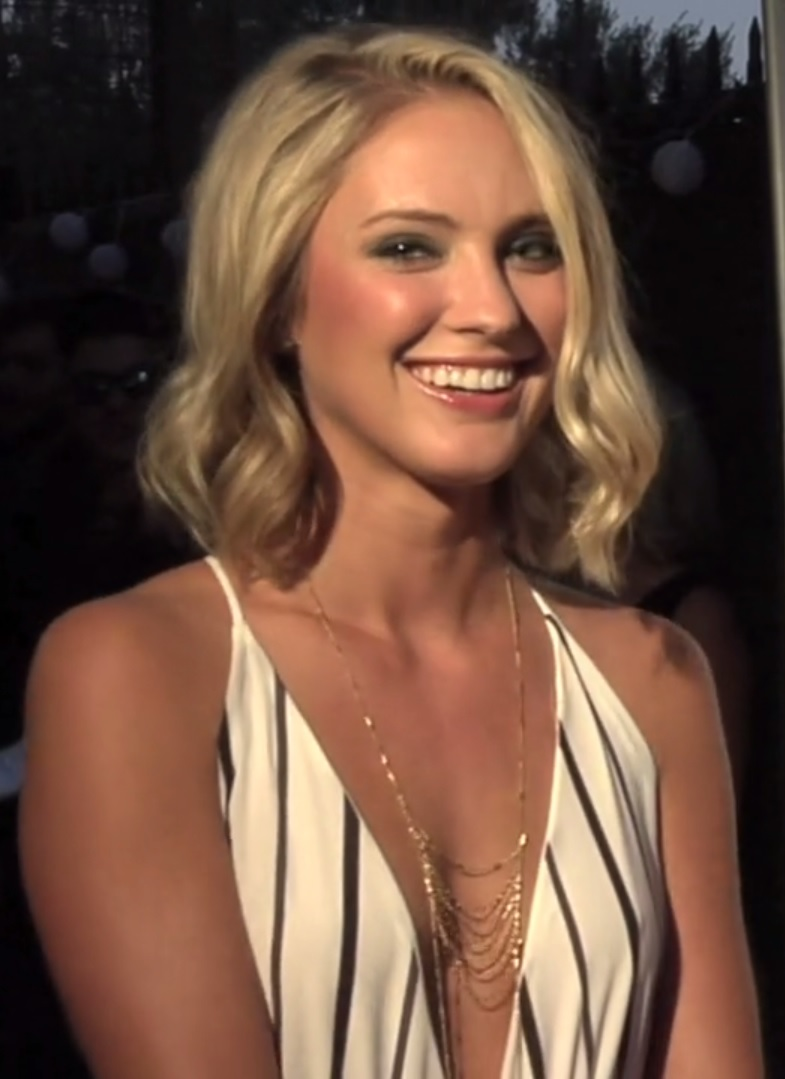 American actress and model Ciara Hanna appearing at Arena Cinema Hollywood on Friday June 19, 2015, for the film Pernicious.